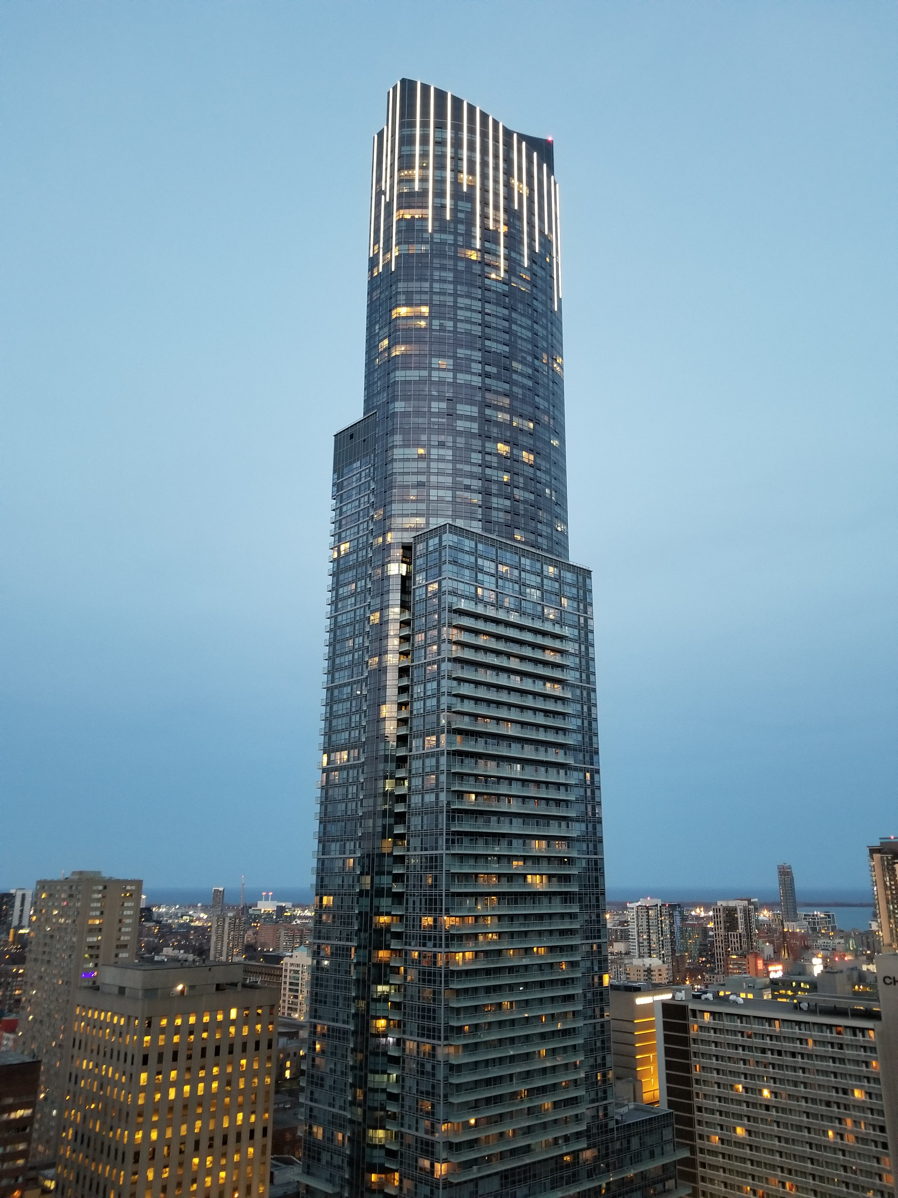 Aura, a residential building located in Toronto Canada, viewed from northwest. Picture taken in April 2018